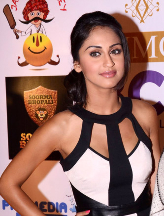 Krystle D'souza at the success party of Box Cricket League in May 2014.